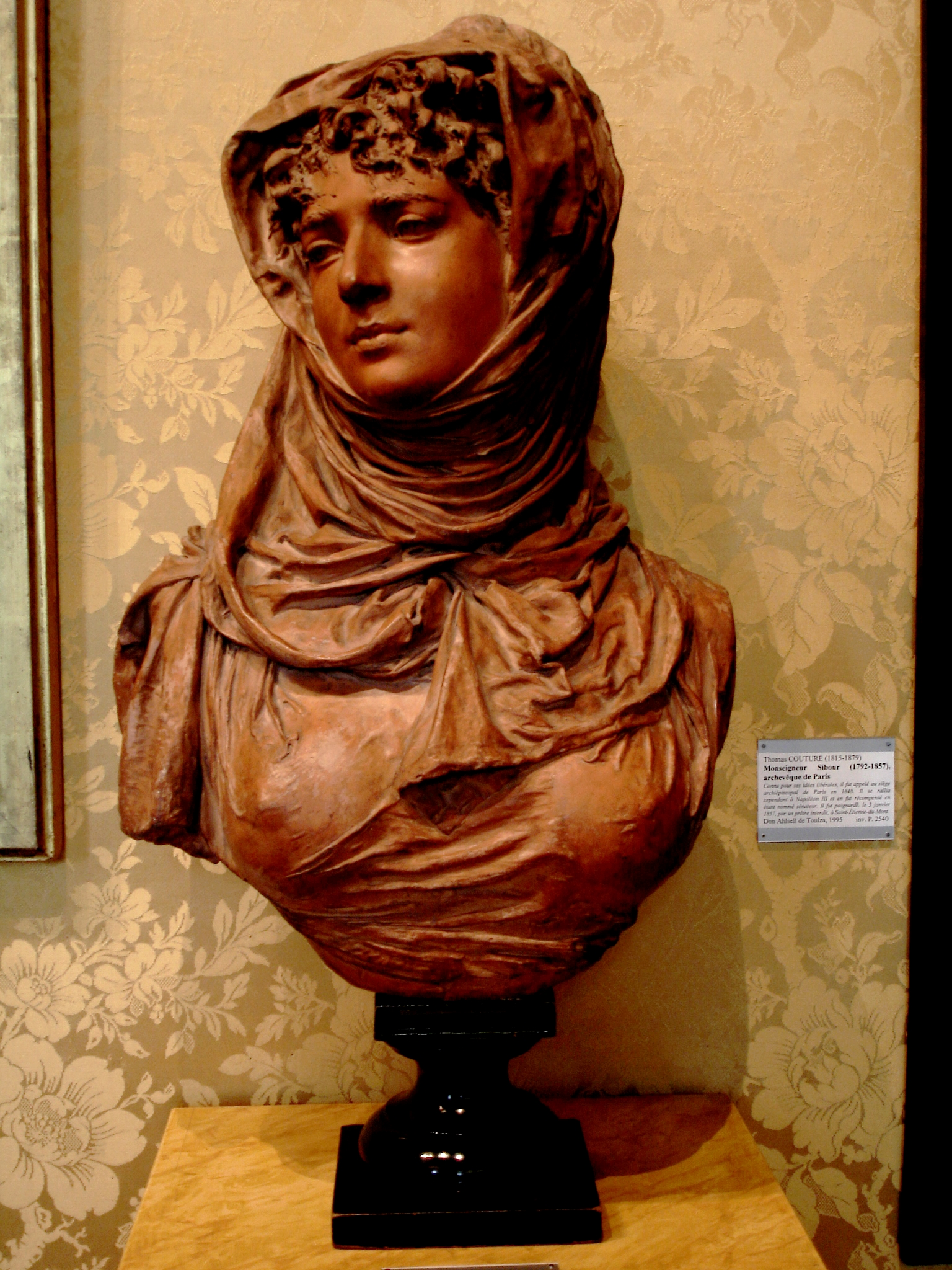 Marguerite Bellanger, actress, last mistress of the emperor Napoleon III. Bust sculpted by Albert-Ernest Carrier-Belleuse (1824-1887).